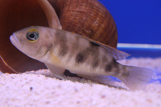 A small cichlid Neolamprologus boulengeri at the 20th Pramong Nomklao fish show event at the Future Park Rangsit, Thailand, in July 2008. Picture taken by myself